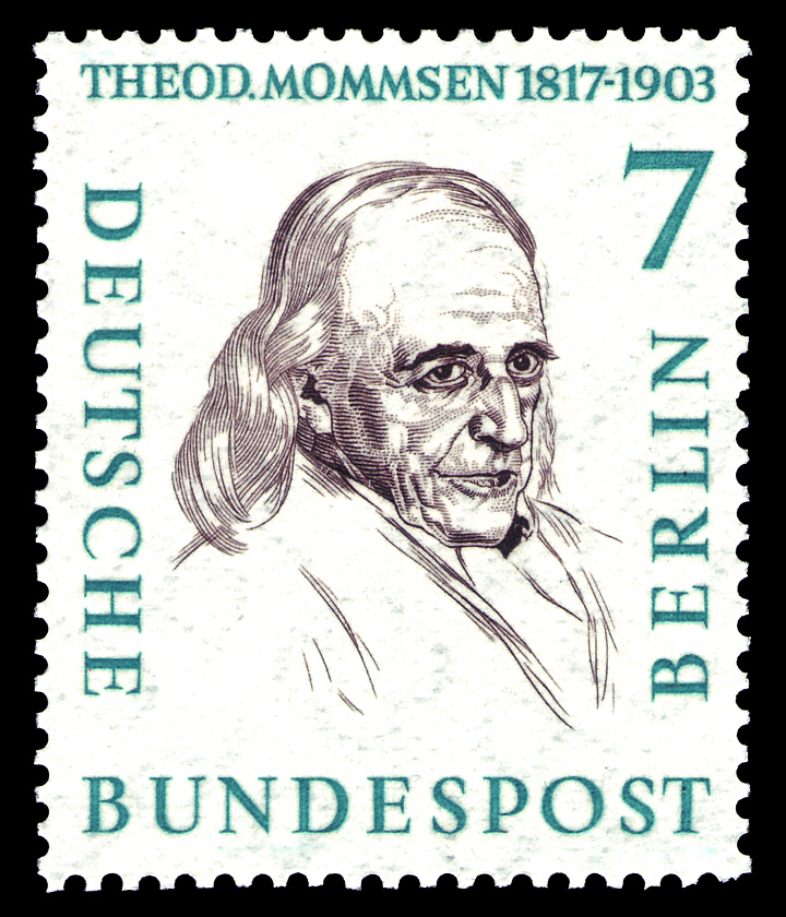 stamp series, men of the history of Berlin II, Theodor Mommsen (1817-1903)